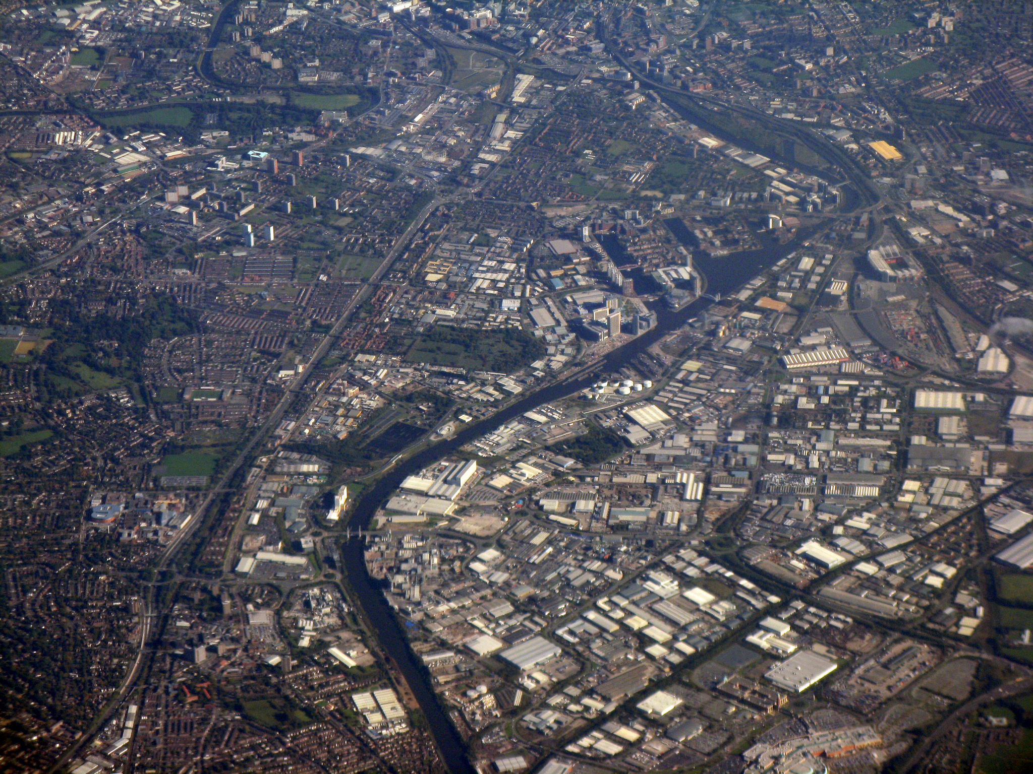 An aerial photograph of Salford (left half of image), Salford Quays (centre part of image), Trafford Park (bottom-right quartile of image), and the fringes of Manchester city centre (the top 10% of the image), all of which are in Greater Manchester, England. Landmarks in this shot include the meander of the River Irwell by Salford University (top left), and (beneath that) the tower blocks at Pendleton in Salford. The waters of the Manchester Ship Canal bisect the image, very roughly down the middle. On the right-hand side, about two-thirds the way up, is Old Trafford, the home stadium of Manchester United F.C. Trafford Park spans the bottom-right quartile of the image.